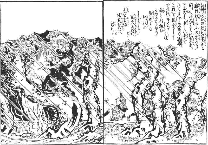 Jiōsenbi (地黄煎火, Atmospheric ghost lights) from Ehon-Sayo-Shigure (絵本小夜時雨)